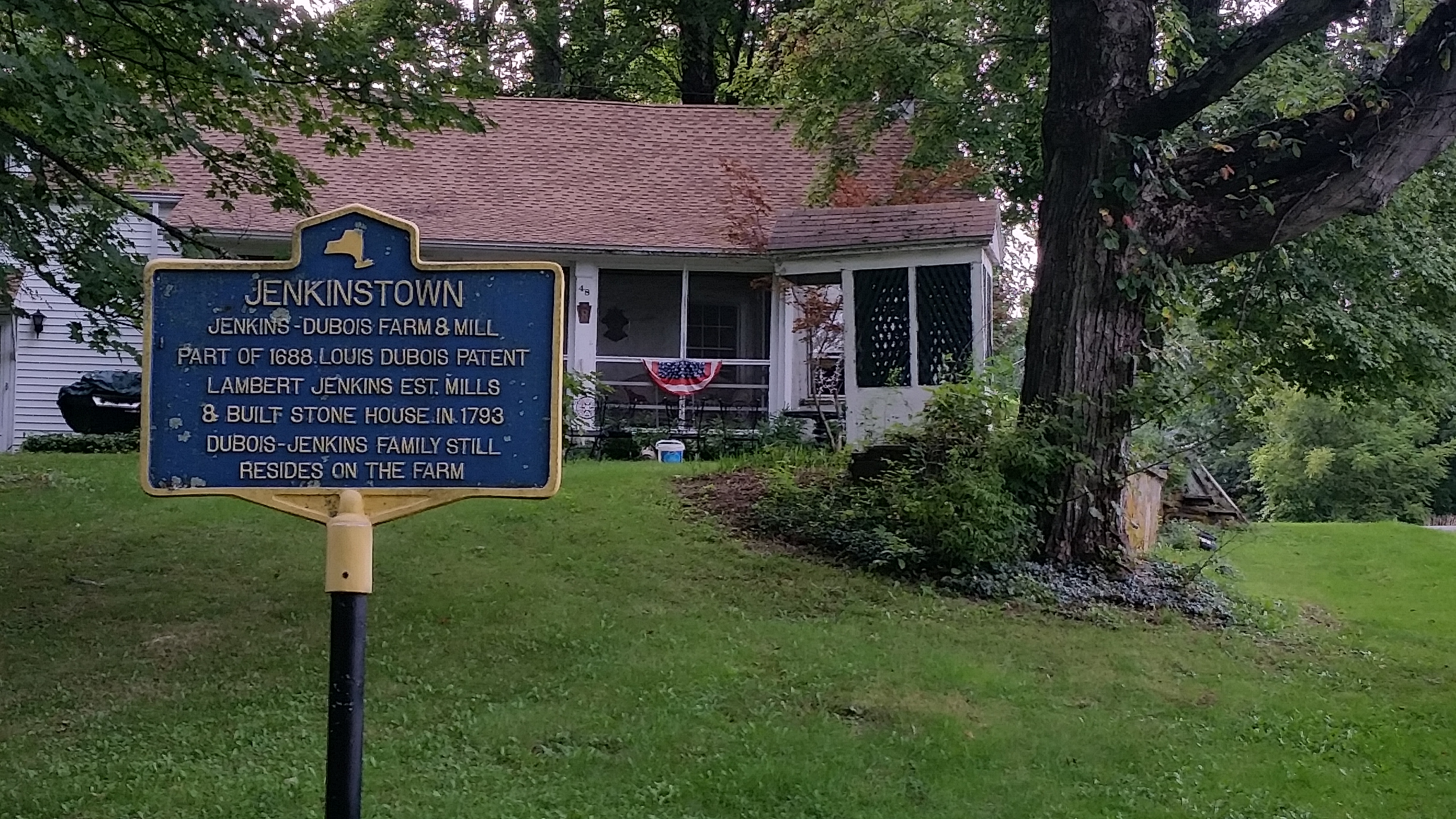 New York State historical marker for Jenkinstown